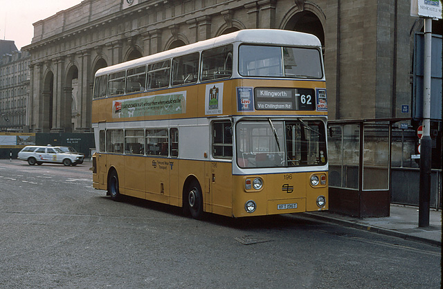 A Tyne and Wear Passenger Transport Executive bus outside Newcastle Central Station waiting to depart on Route 62 to Killingworth in June 1980. Fleet number 196, registration VFT 196T, this bus was bought new in July 1979, and is a Leyland Atlantean AN68A/2R with Metro Cammell Weymann (MCW) bodywork.